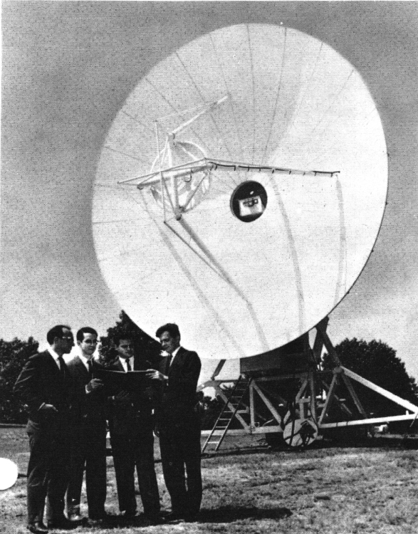 30m antenna in Brazil used to receive signals from Relay 1